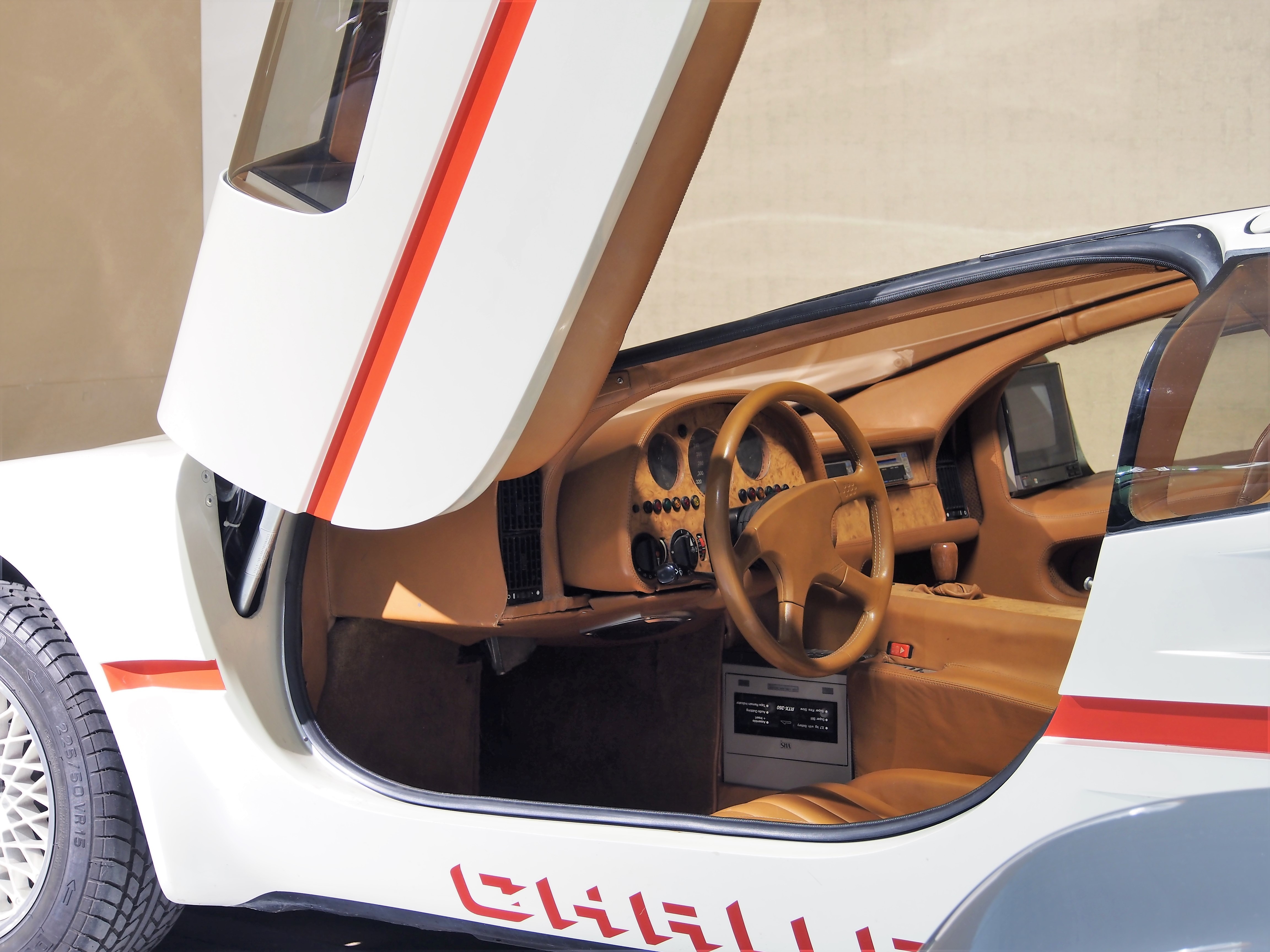 1985 Sbarro Challenge in the Louwman Museum.